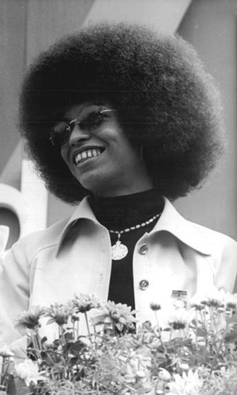 Angela Davis at a demonstration in Berlin.